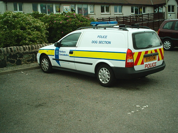 Police dog van at Emergency Services Day at Portree, Isle of Skye in 2003